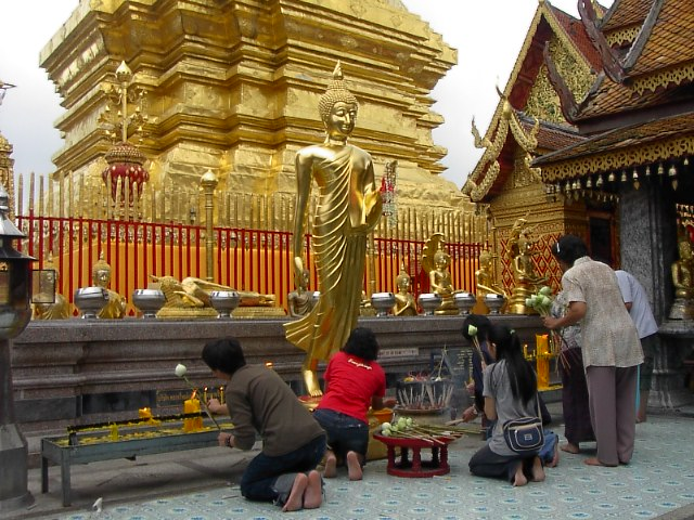 Photo by User:Adam Carr, July 2004